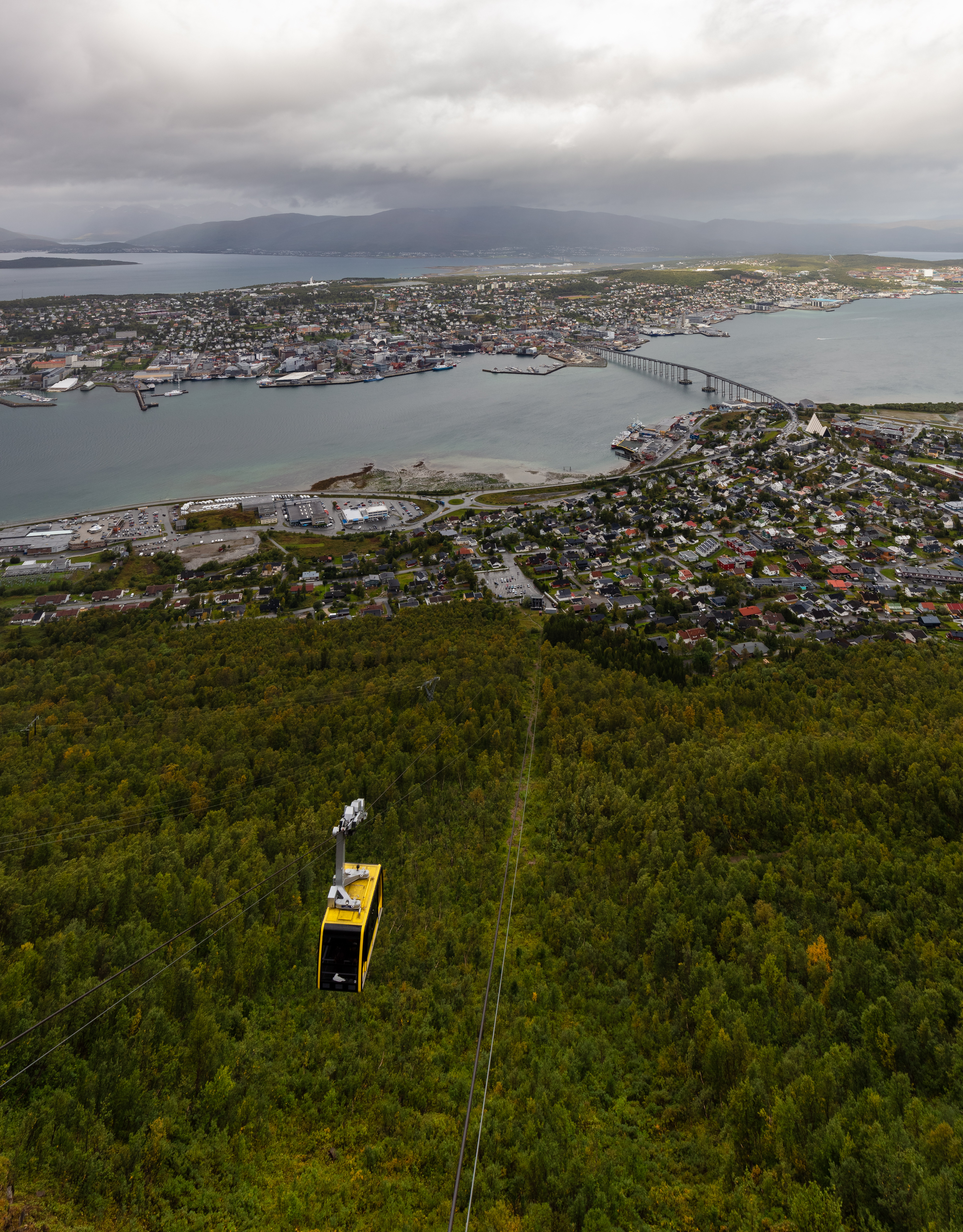 Cable car, Tromsø, Norway